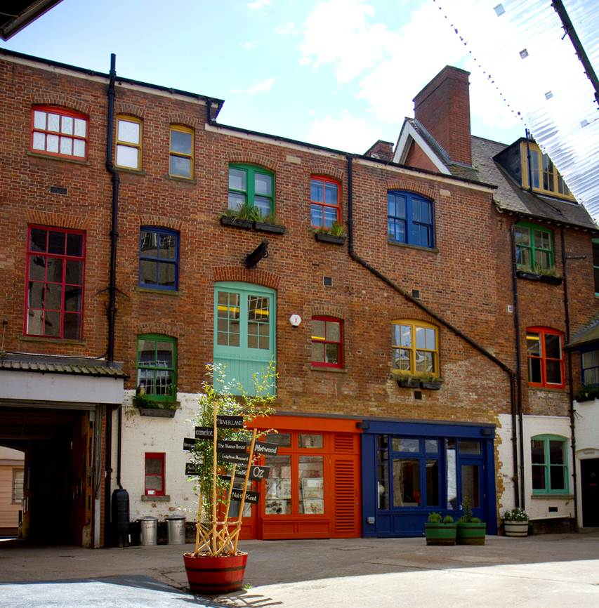 The Story Museum's Courtyard (south side). This section of the building was previously a telephone exchange and a pub, the steel hoist and first floor door are from occasions when telephony equipment was brought in.